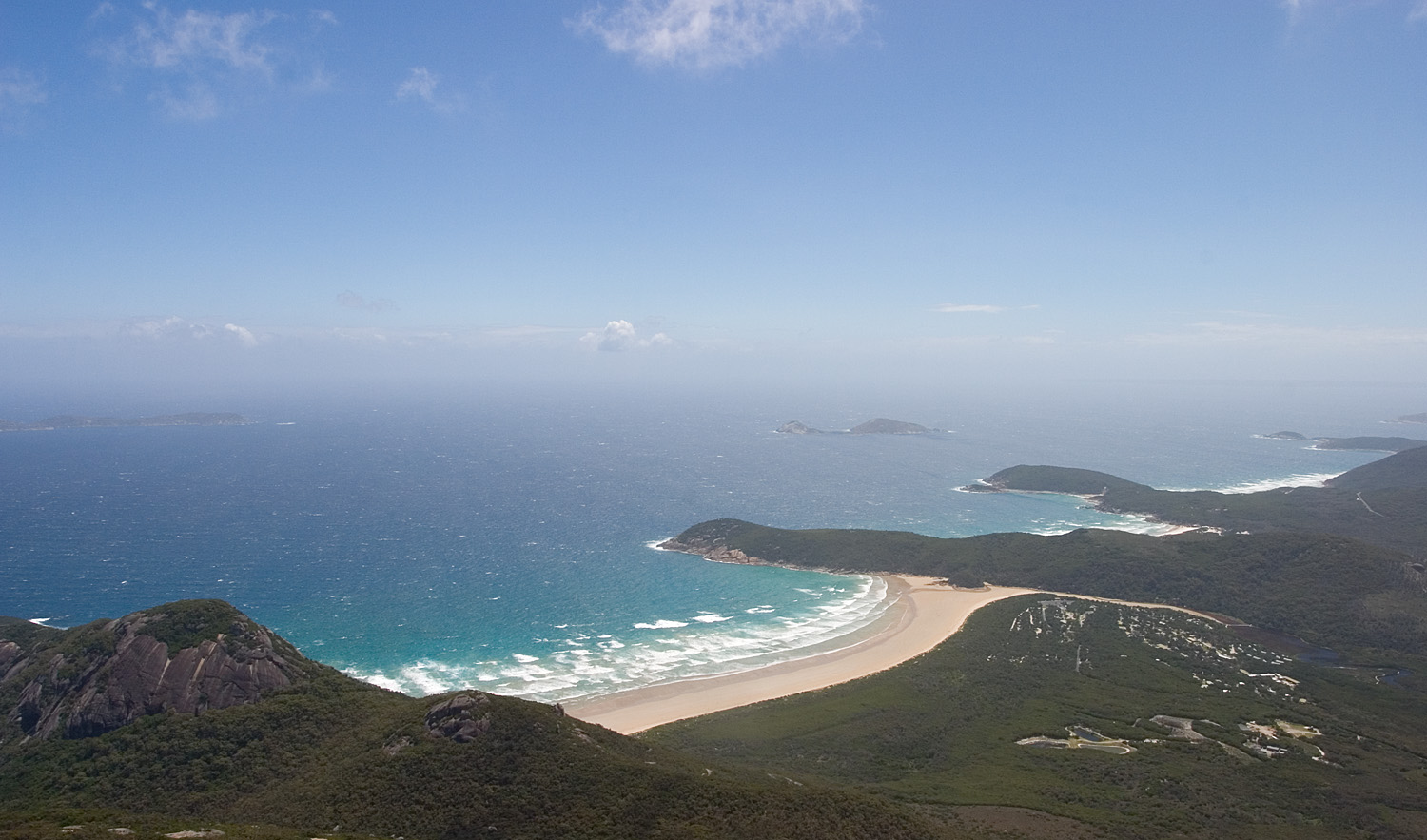 Tidal River to the north-west as viewed from the summit of Mount Oberon in Wilson's Promontory National Park, Victoria, Australia. Taken by myself with a Canon 10D and 17-40mm f/4L lens.